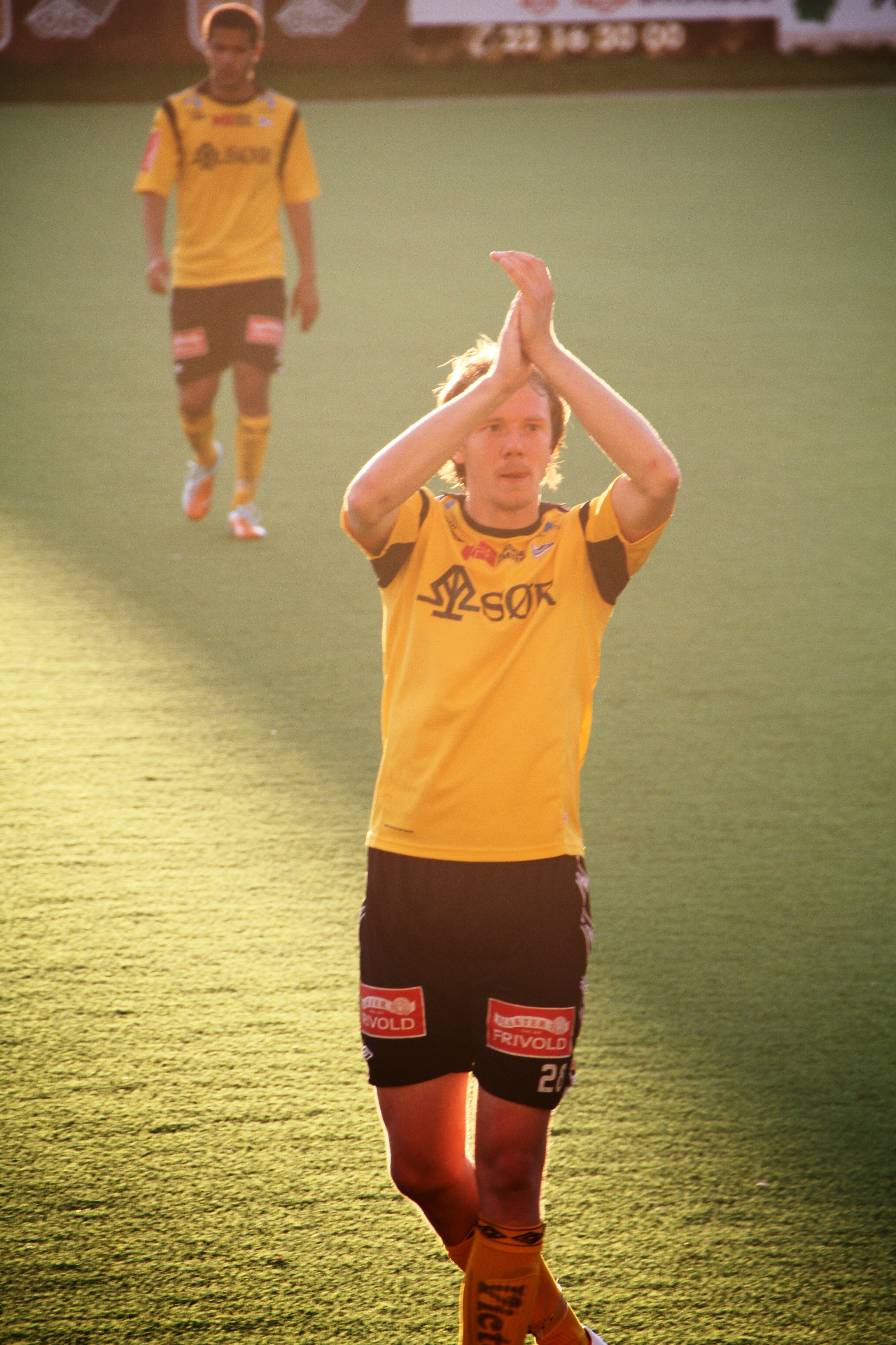 IK Start player in match between Start and Strømmen IF, August 2012. Strømmen stadium, Akershus, Norway.